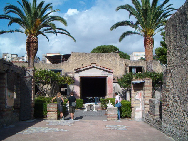 The deer's house, Herculaneum